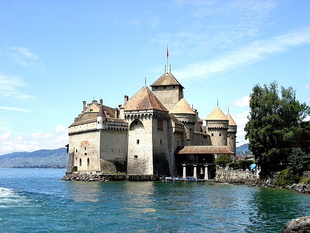 Chillon